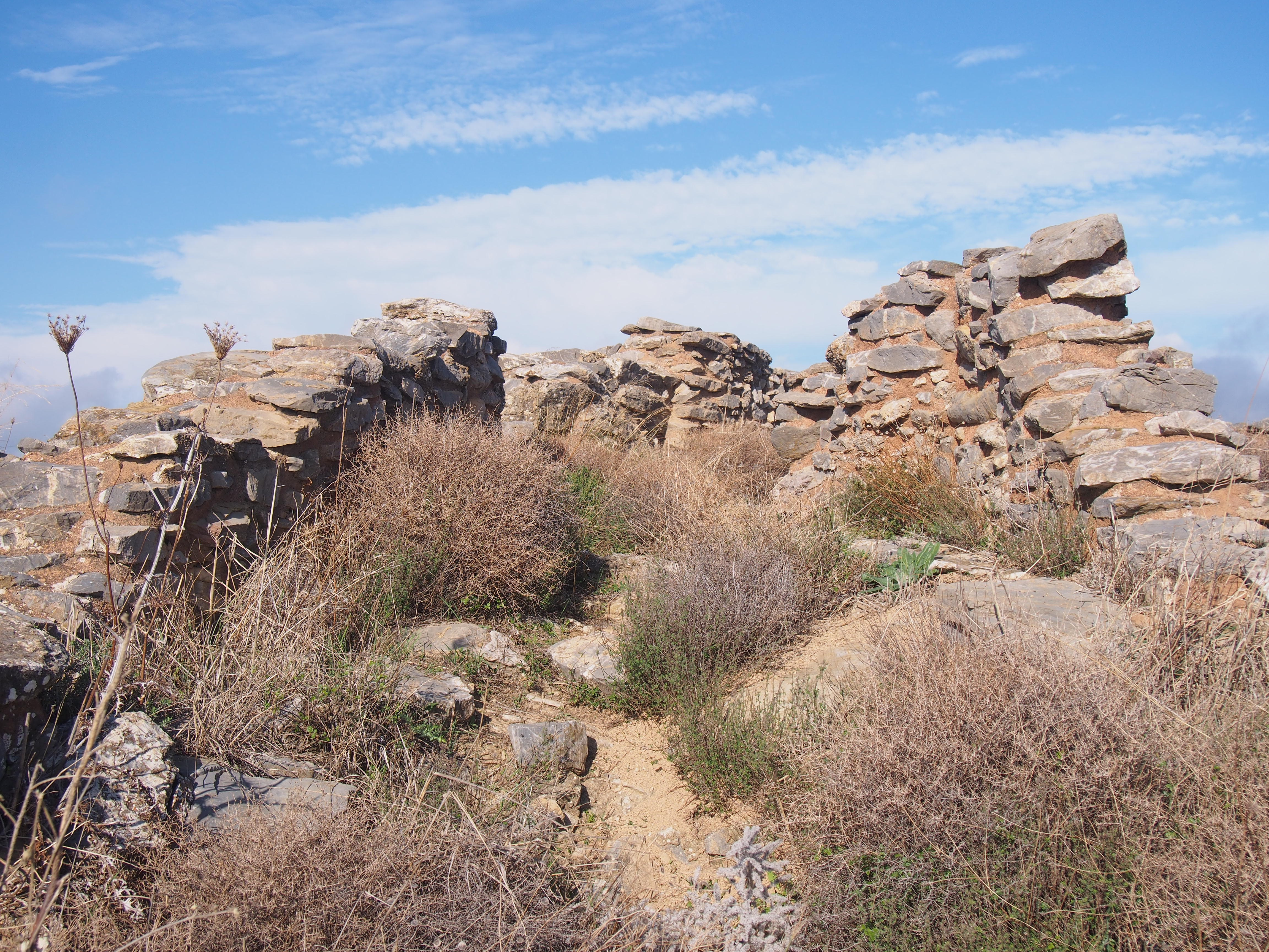 View of the runis of the minoan house at Hamezi.